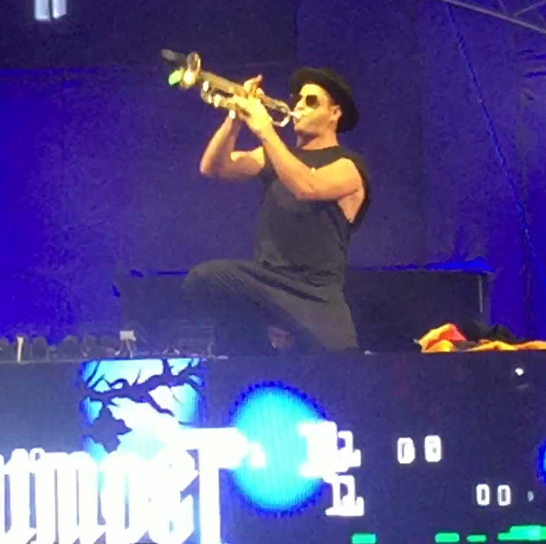 Timmy Trumpet playing live at Airbeat One Festival in Neustadt Glewe, Germany.